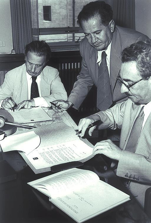 Signing of the pact between the Israeli Government and the Zionist Organization. From left to right: Chair of the Zionist General Council, Berl Locker, Government Secretary Zeev Sherf, and Prime Minister Moshe Sharett.